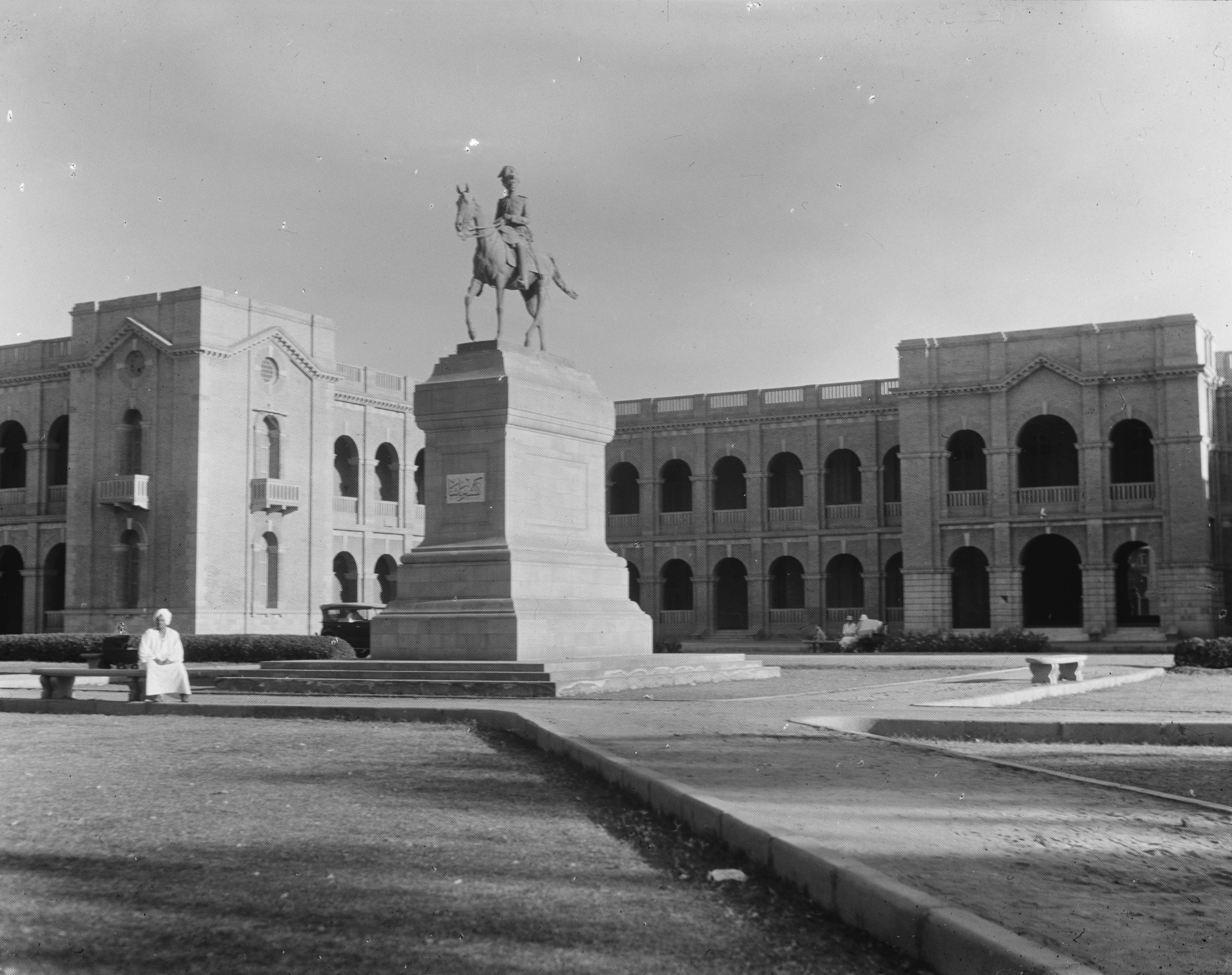 Sudan. Khartoum. Government offices and equestrian statue of Herbert Kitchener (of British colonial era)